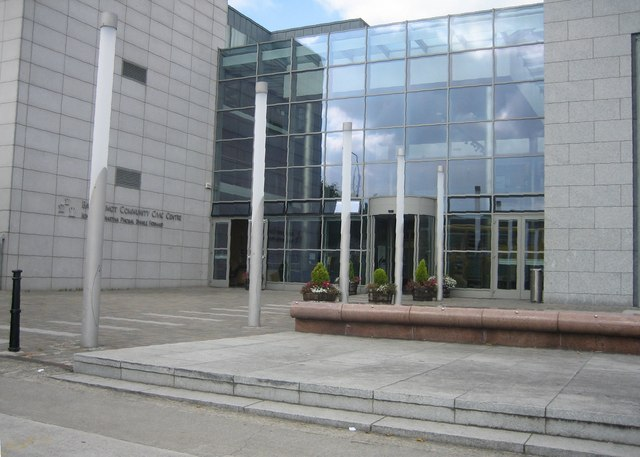 Ballyfermot Community Civic Centre, Dublin